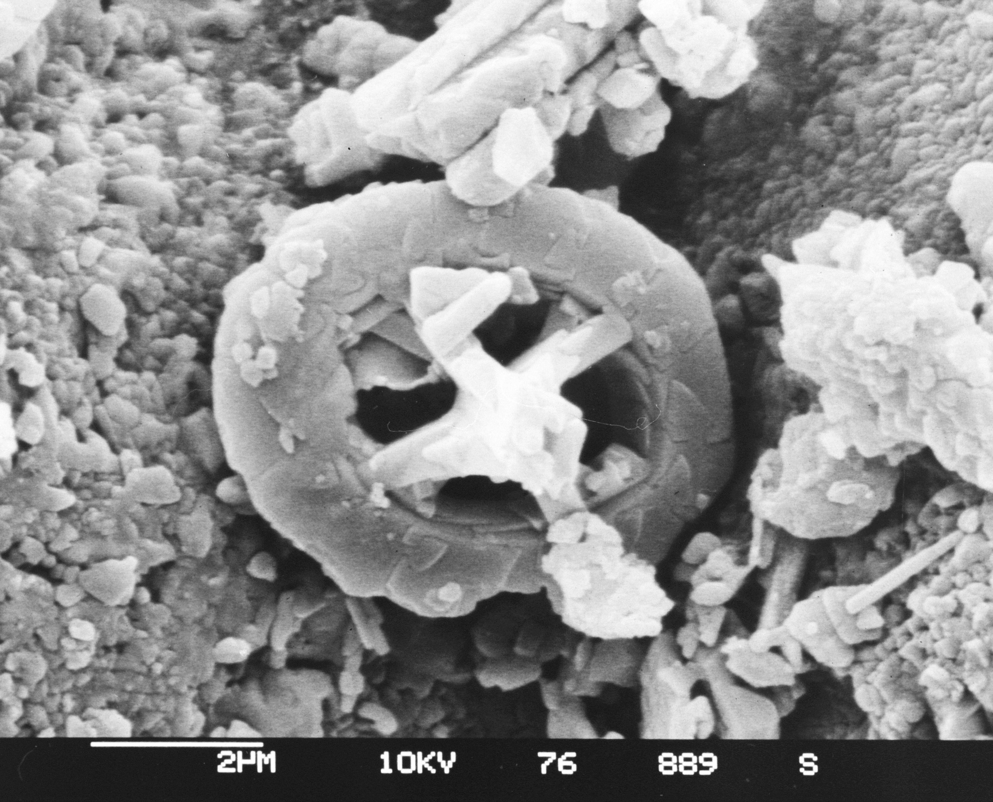 SEM photo of the calcareous nannofossil Prediscosphaera cretacea (Coccolithophorida) preserved in Arnager Kalk (“Arnager Limestone”) from the Upper Cretaceous of Bornholm, Denmark.